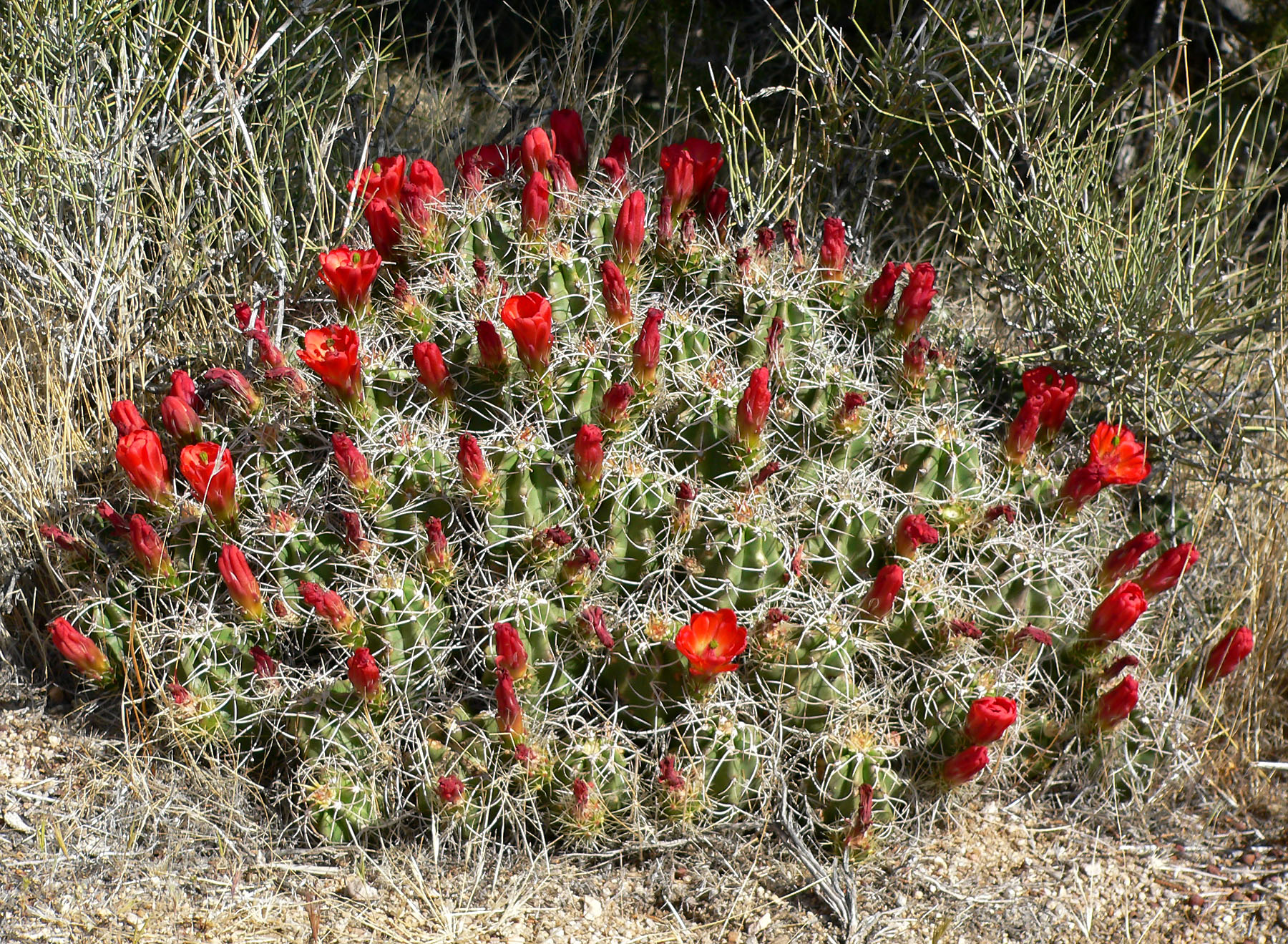 Echinocereus triglochidiatus on Cima Dome near Teutonia Peak, Mojave National Preserve, California (this is the same individual as in Image:Echinocereus triglochidiatus 7.jpg, two weeks later)